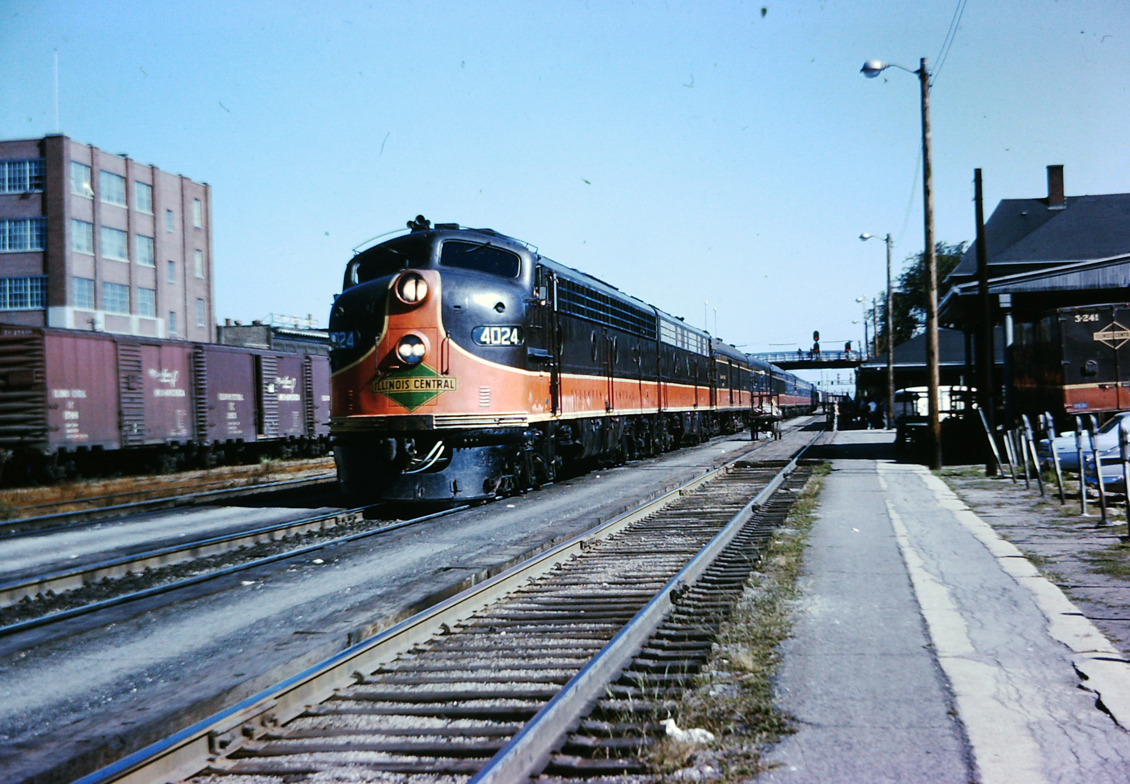 The Illinois Central's City of Miami at Kankakee, Illinois. The train is led by EMD E8 #4024.